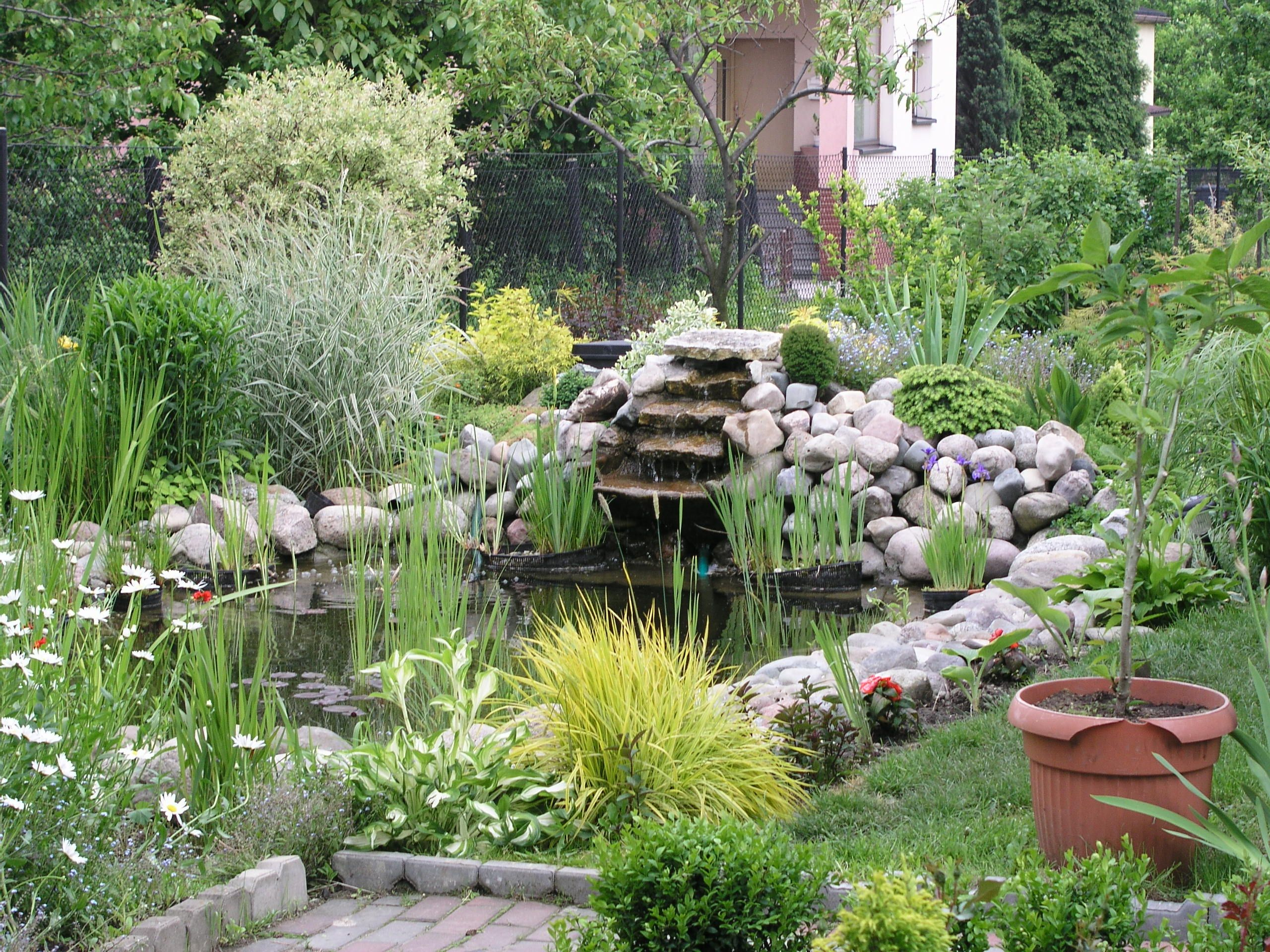 A picture of a pond in a residential garden.